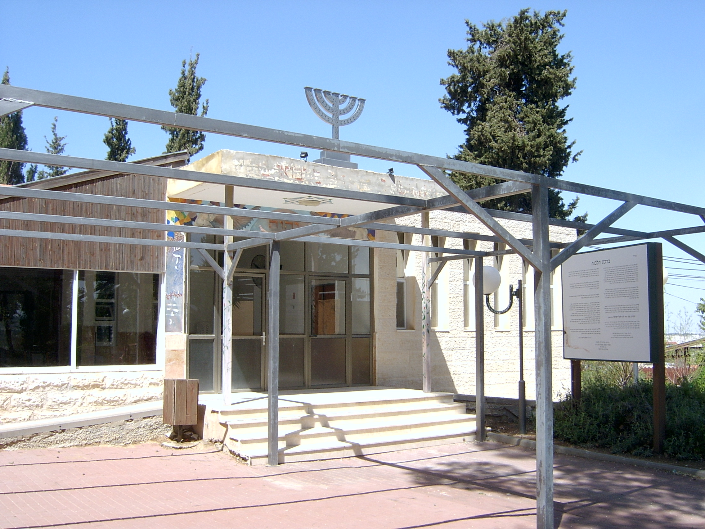 Aminadav Synagogue